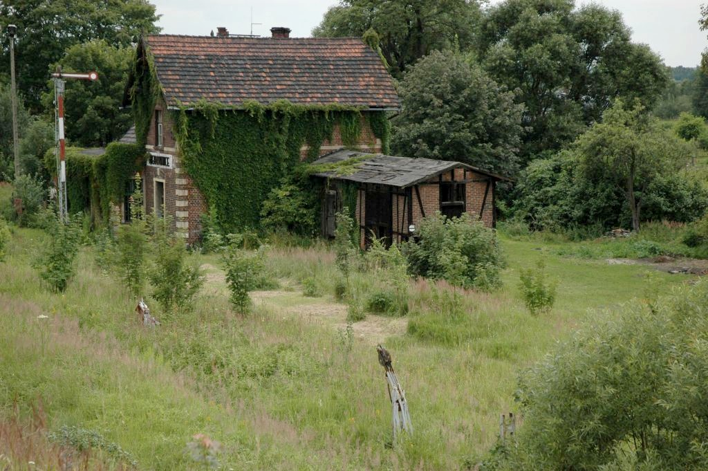 Disused narrow gauge station Nieborowice (Upper Silesian Narow Gauge Railways, Nieborowice, Gliwice County, Silesian Voivodeship)